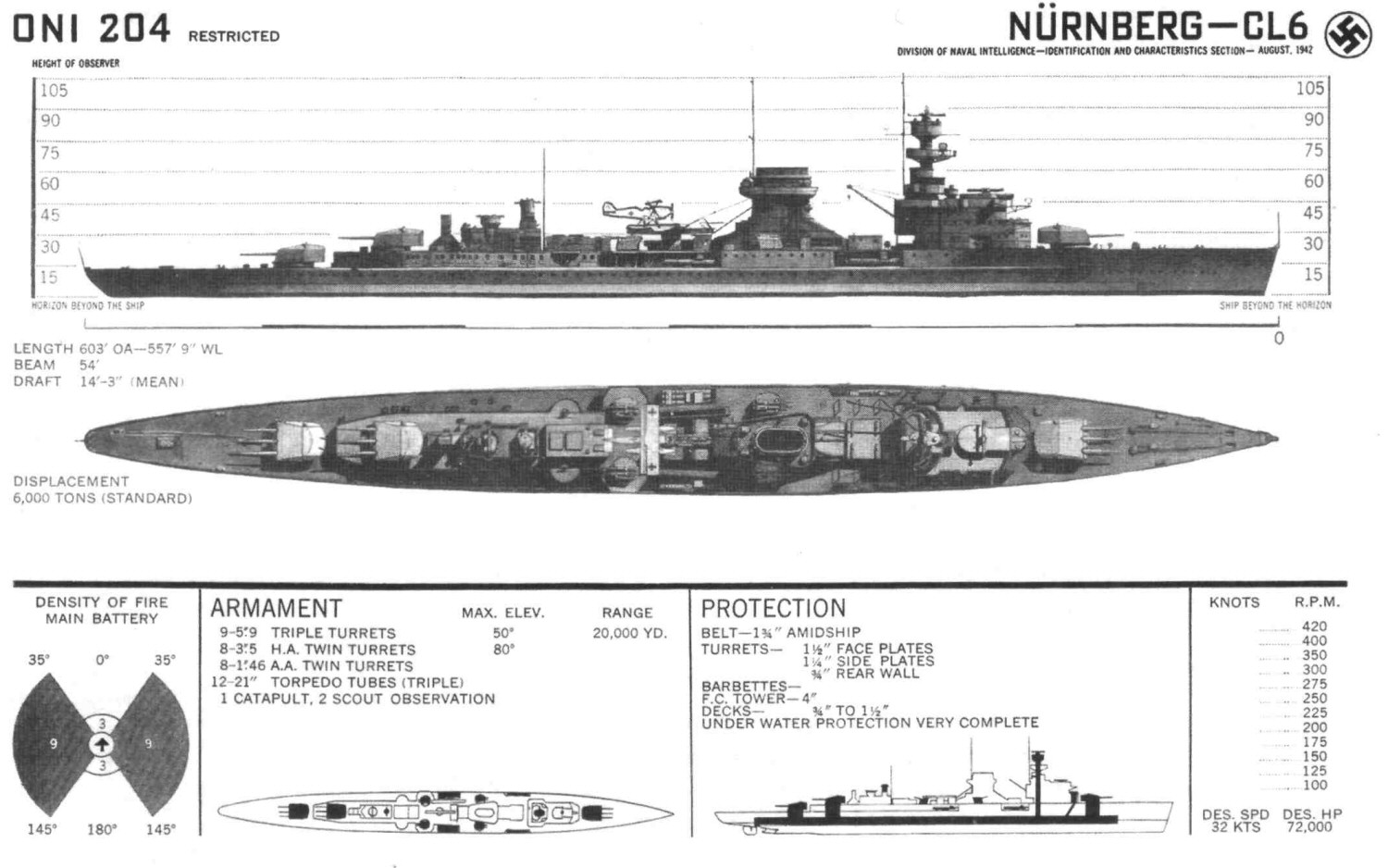 Silhouette of the German light cruiser Nürnberg